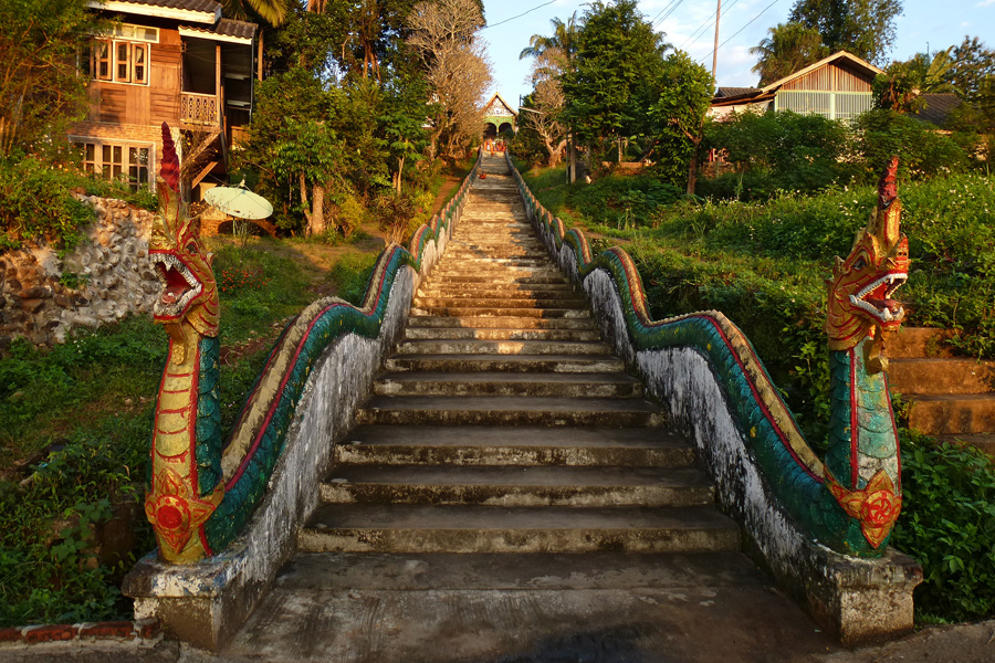 Vat Chom Khao Manilat, Huay Xai, Bokeo Province, Laos.